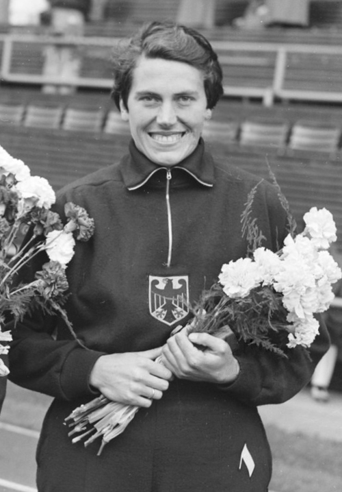 1952 Summer Olympics in Helsinki. Women's shot put. Marianne Werner.